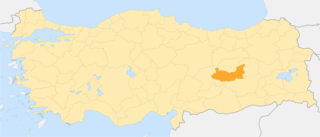 Shows the location of the province Elazığ in Turkey